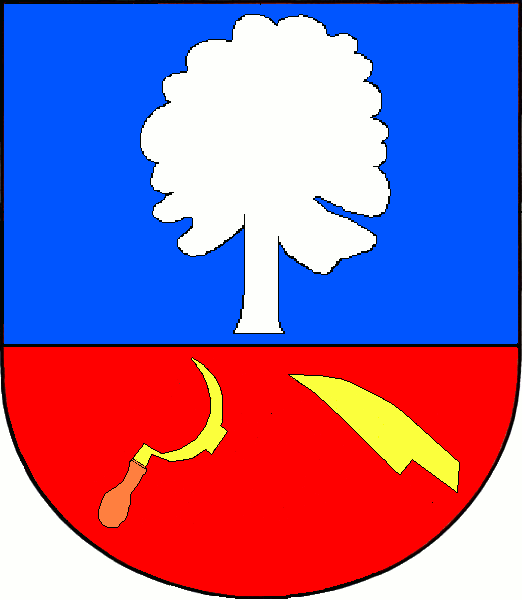 Municipal coat of arms of Bukovany village, Hodonín District, Czech Republic.